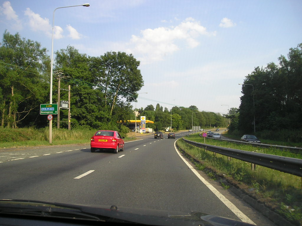 The Southbound A491 road near Fairfield, Worcestershire